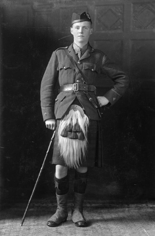 1 Battalion, Black Watch (Royal Highland Regiment) Viscount Francis Drumlanrig enlisted with the 1st Battalion, Royal Highlanders as a second lieutenant in January 1915. He served on the Western Front and was promoted to lieutenant in October 1915 and to captain in November 1917. During his service, he suffered from severe appendicitis, diptheria and temporary paralysis. Following the recommendation of the Medical Board, he was granted permission by the War Office to travel to the United States of America, during his leave, in 1916. Upon his return to the Western Front he received a gun shot wound to the leg. He applied to relinquish his commission, on account of wounds received in action, in November 1919. In 1927, as the Marquess of Queensbury, he resigned his commission from the Regular Army Reserve of Officers. Faces of the First World War The full story is not always known to us. If you know more, please tell us in the comments below. Find out more about this First World War Centenary project at . This image is from IWM Collections .